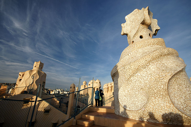 Casa Mila roof